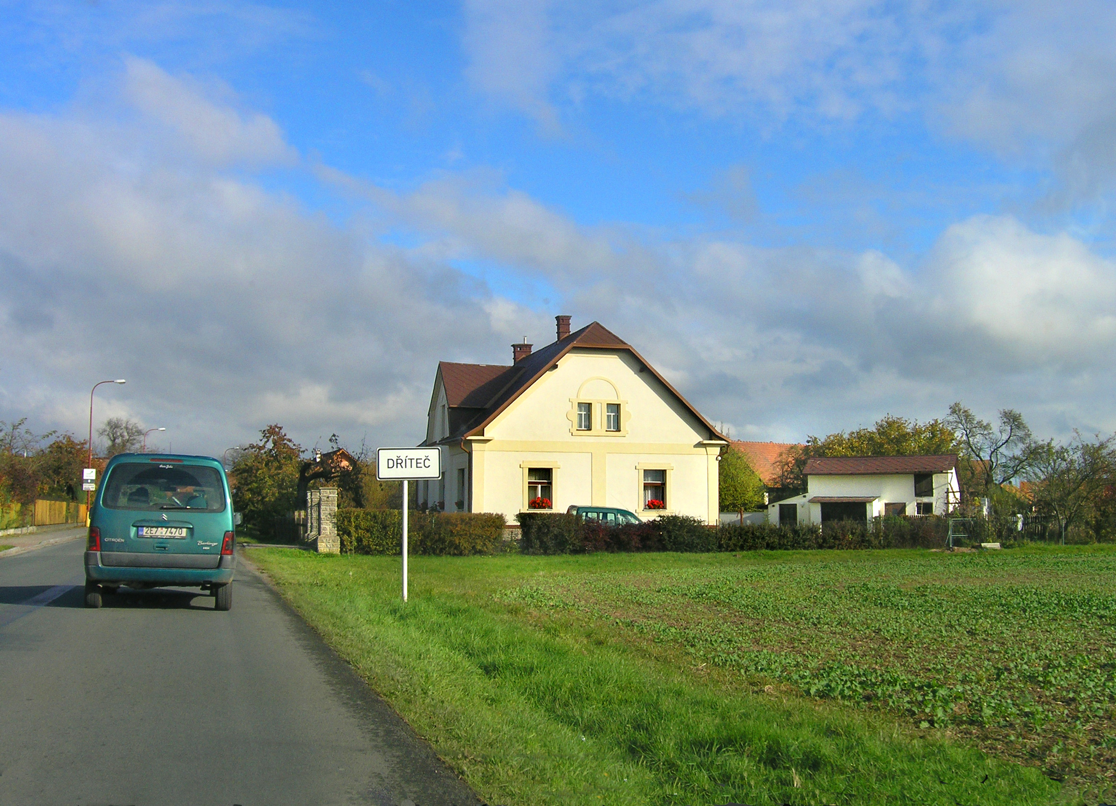 Dříteč vilage from south, Czech Republic